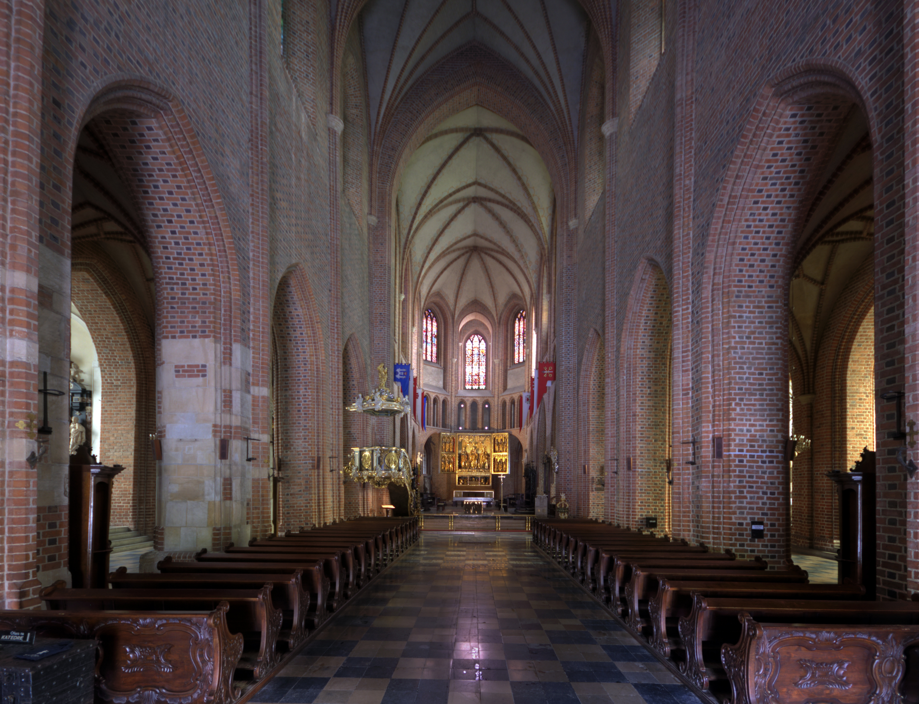 the central nave of the Poznań Cathedral, Poland.